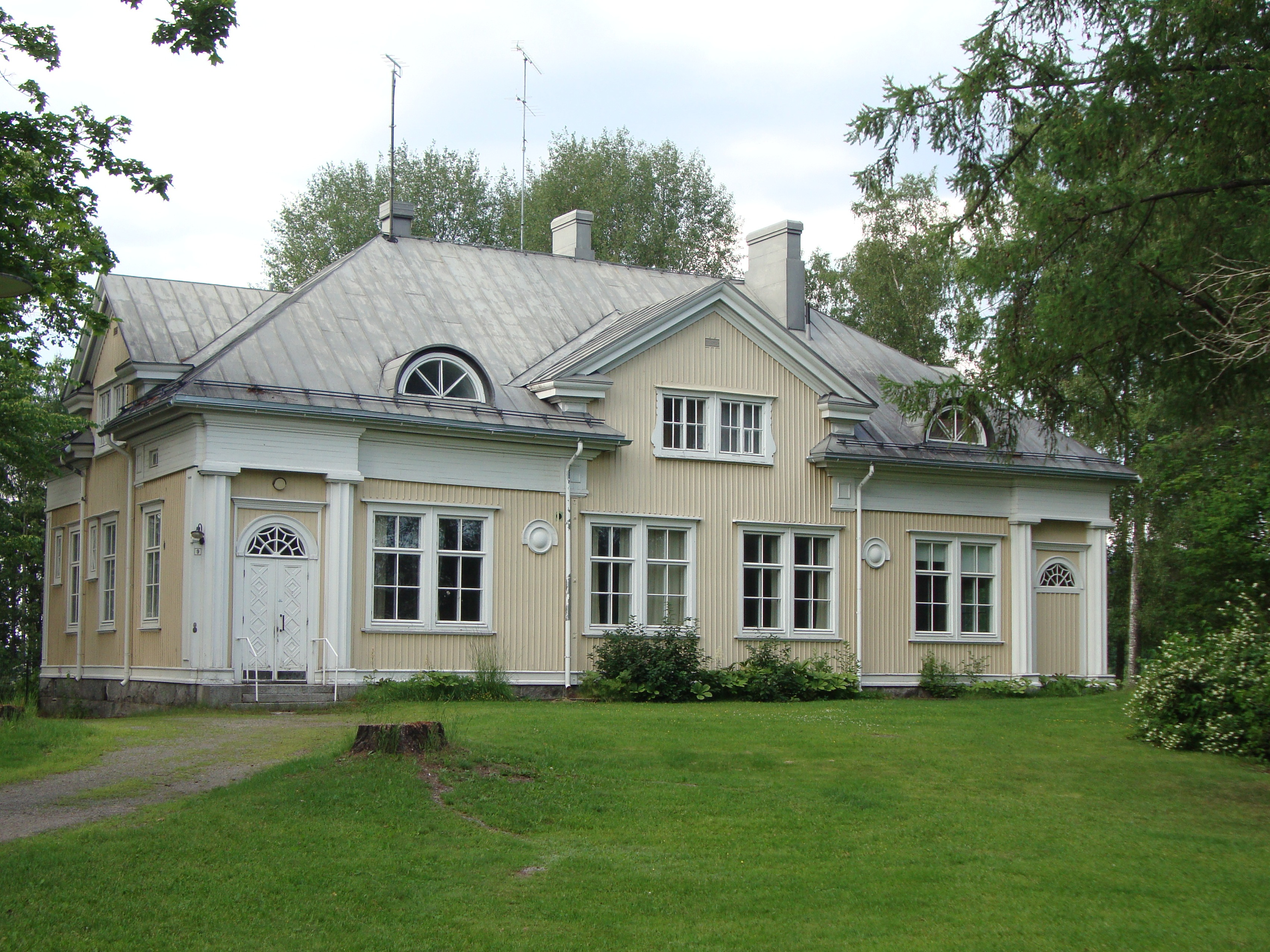 The former town hall of Pieksämäki, Finland, architects Walter and Ivar Thomé, in 1918